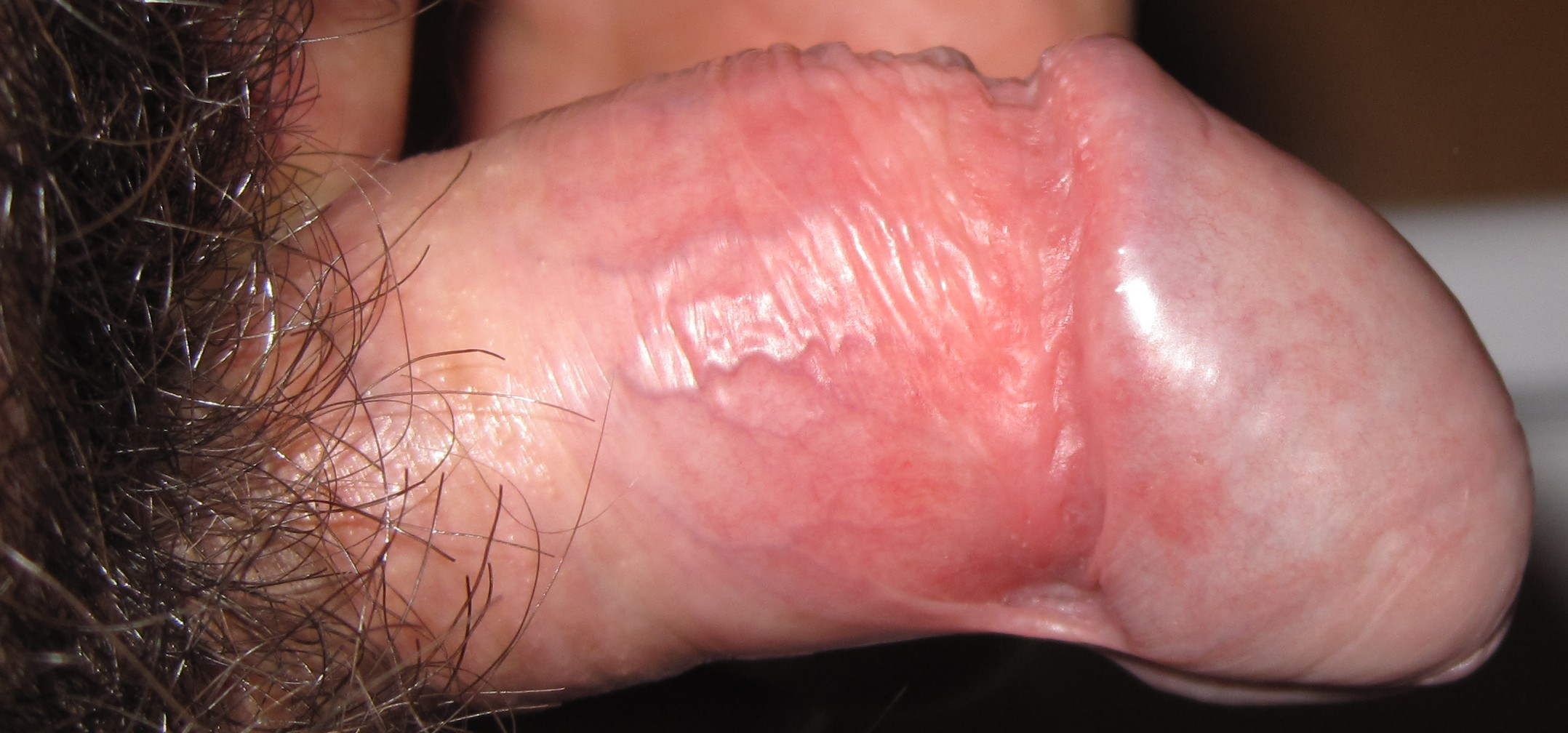 Uncircumcised 28 year old penis with frenulum breve.